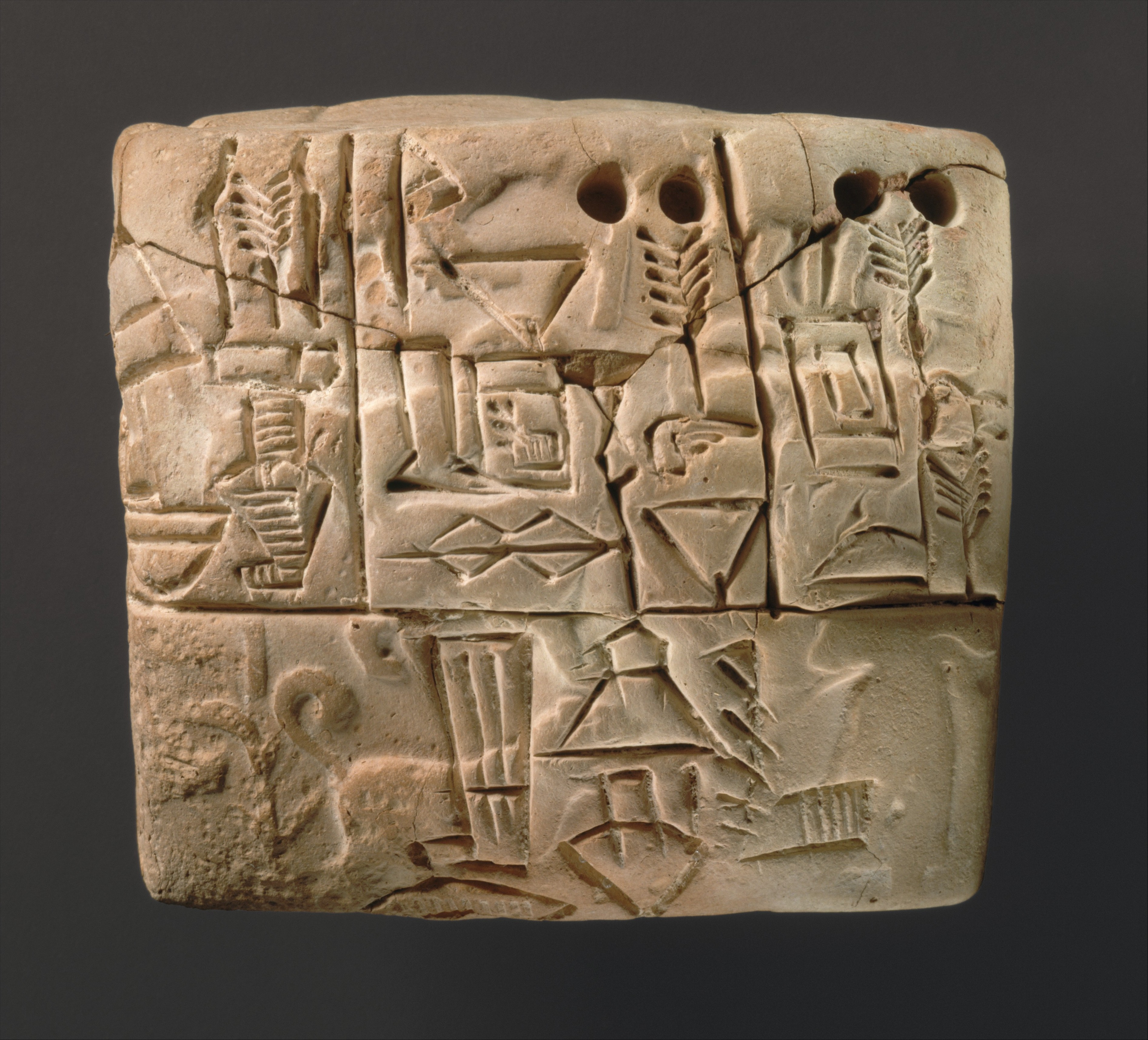 Sumerian; Cuneiform tablet; Clay-Tablets-Inscribed-Seal Impressions